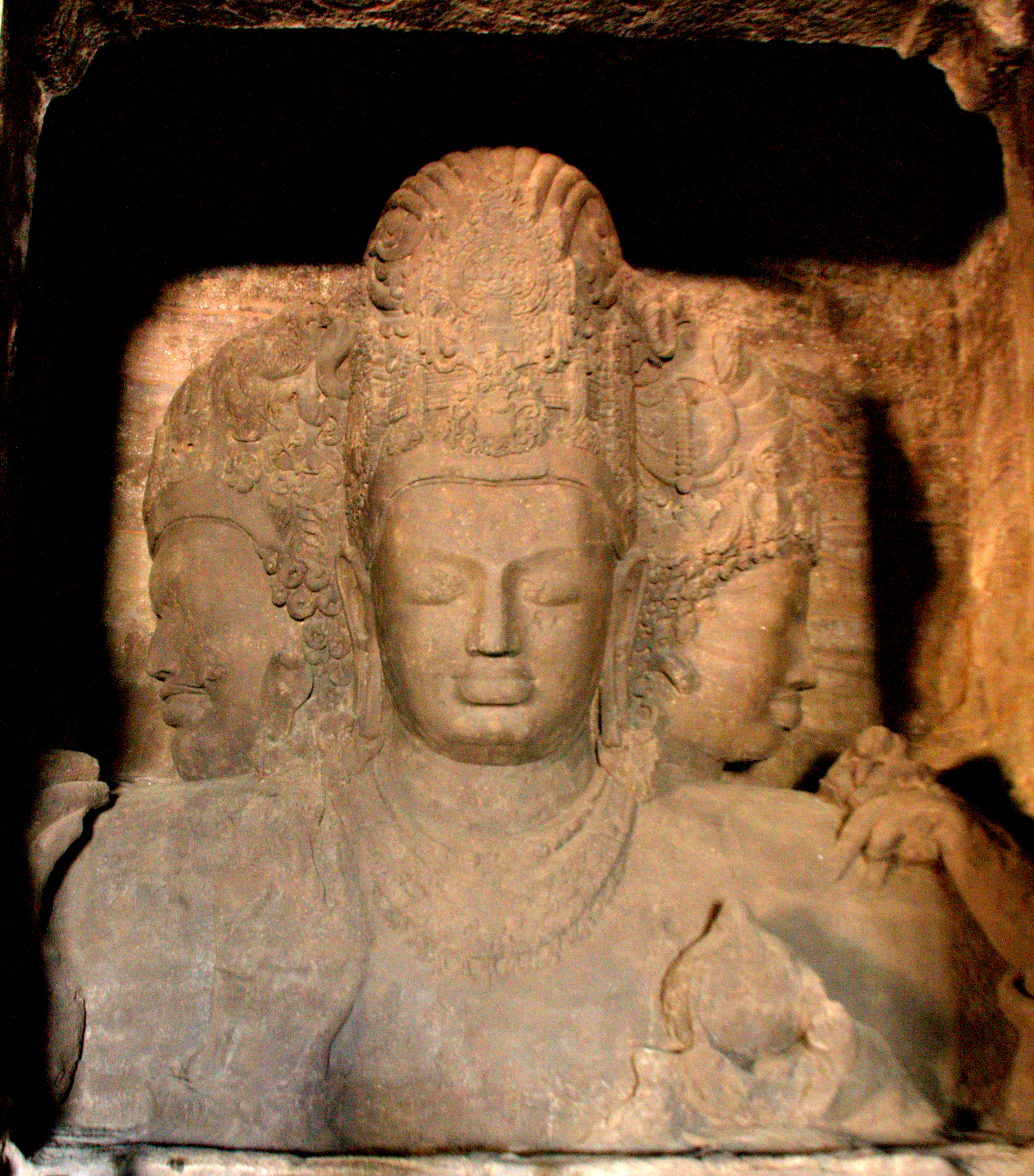 The sculptures here were created beginning in the late Gupta Empire, or some time after, and at later dates. Elephanta Island was designated a UNESCO World Heritage Site in 1987 to preserve the artwork.